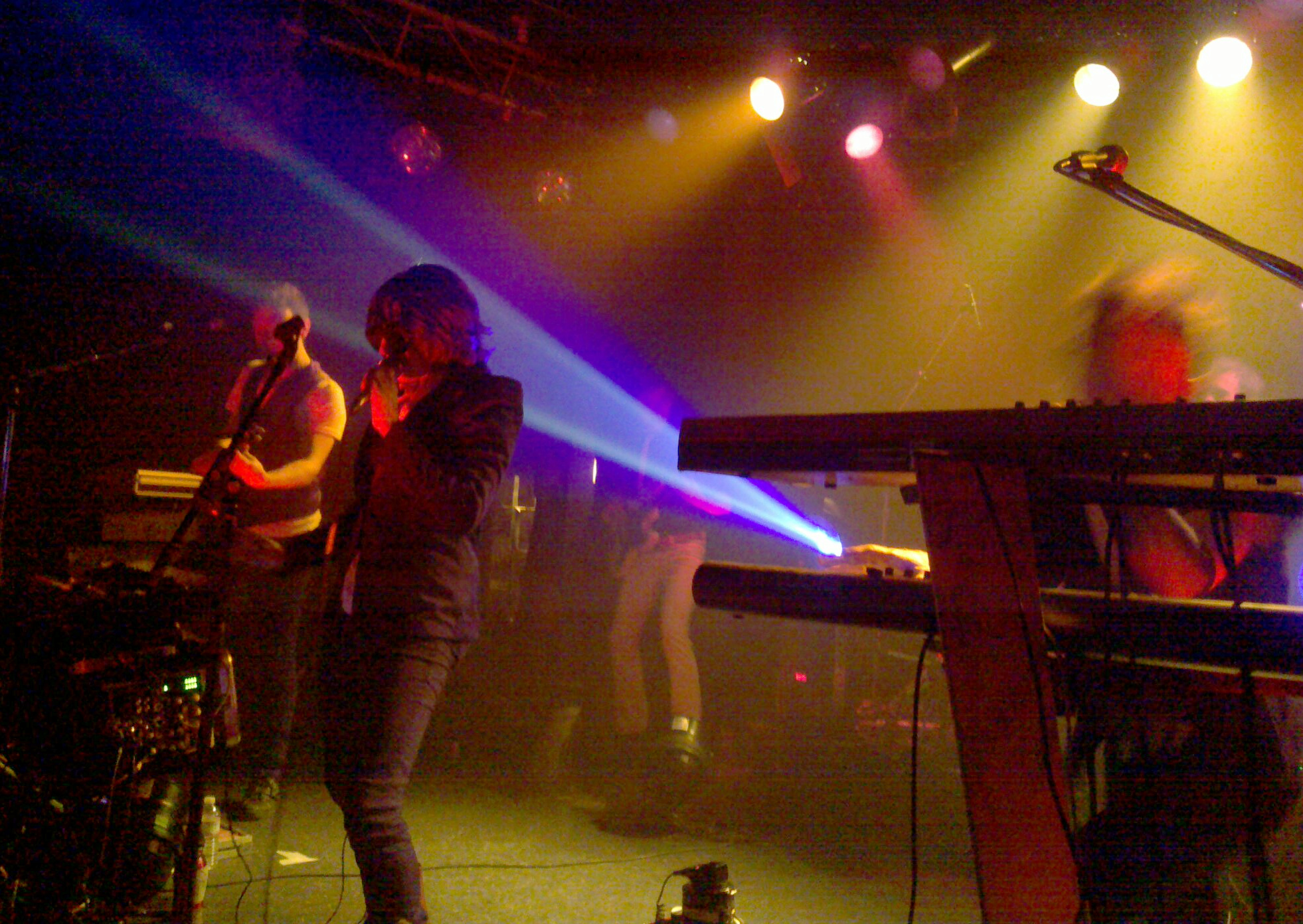 Singer Michelle Chamuel with band My Dear Disco performing at Double Door in Chicago, Illinois.